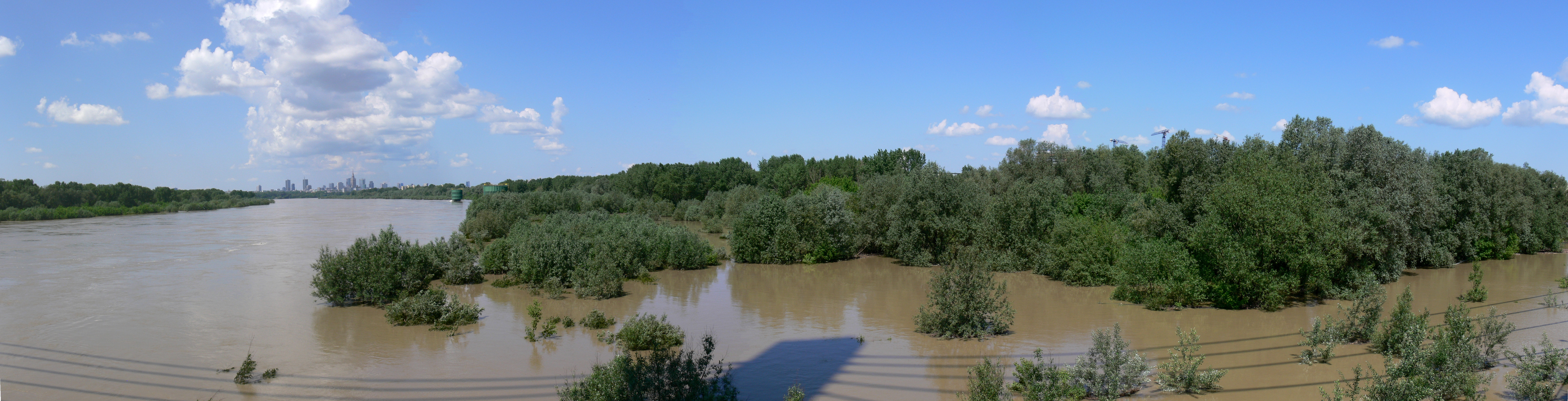 View from north-west side of siekierkowski bridge in Warsaw.